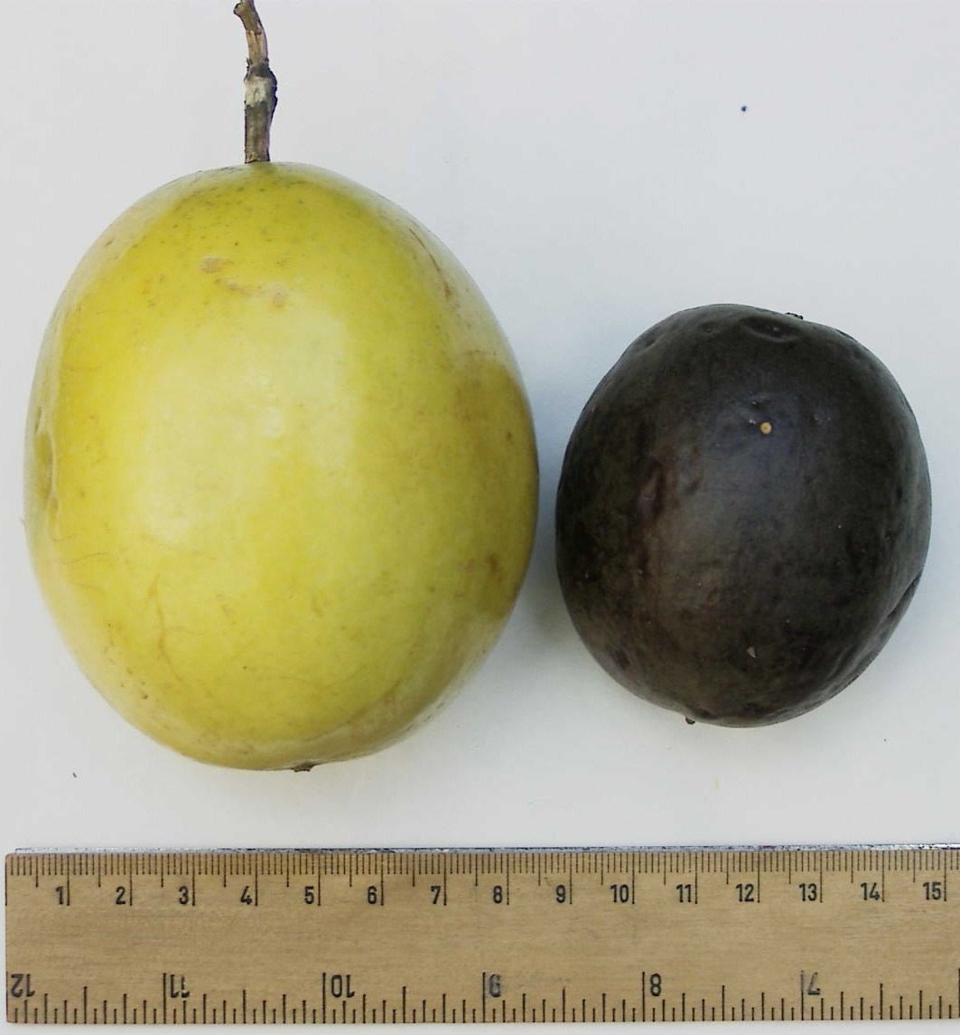 Purple and yellow passion fruits, side by side, showing differences in size. A ruler is shown for comparison.